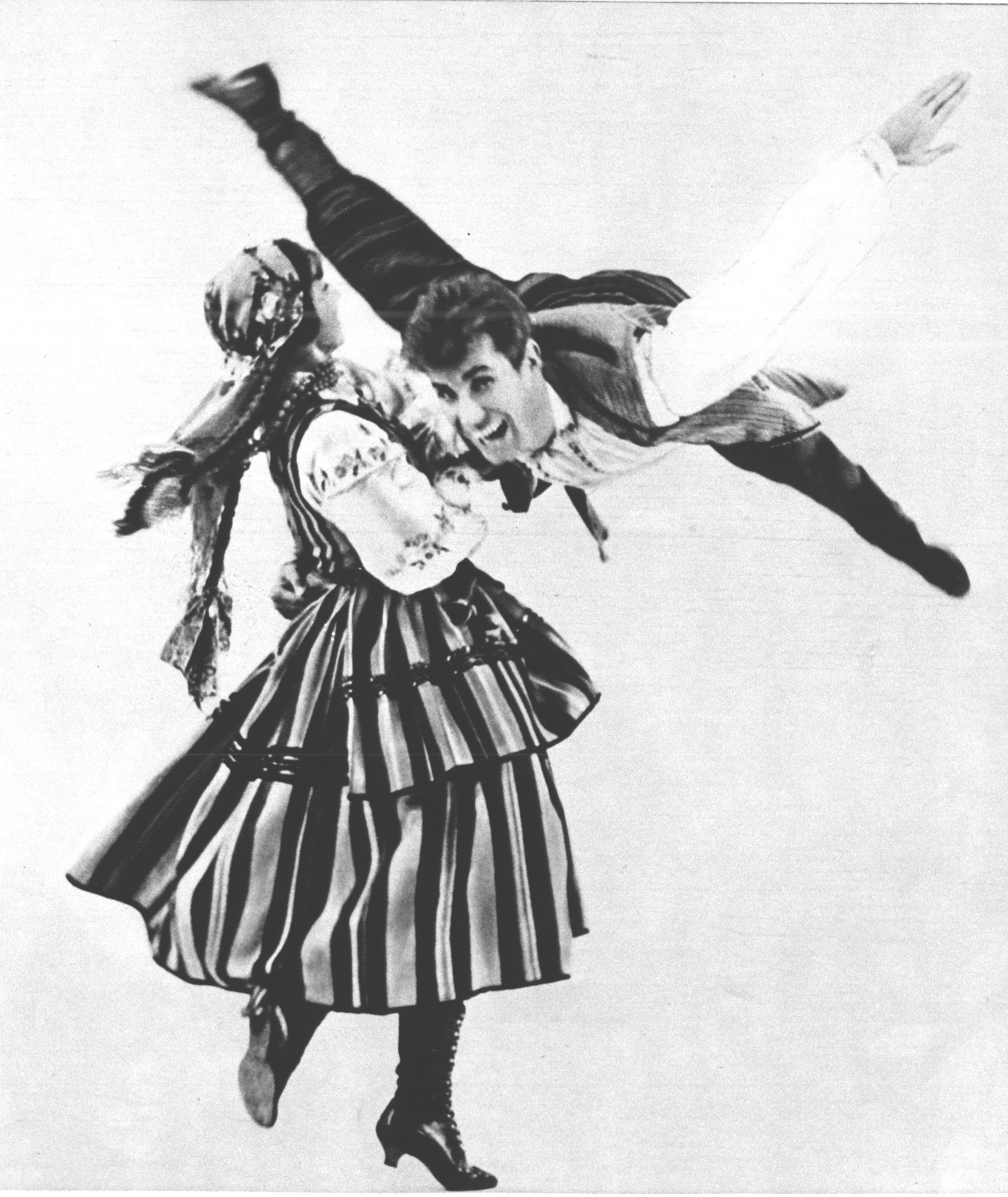 Witold Zapała, "Mazowsze" Chroeographer and soloist